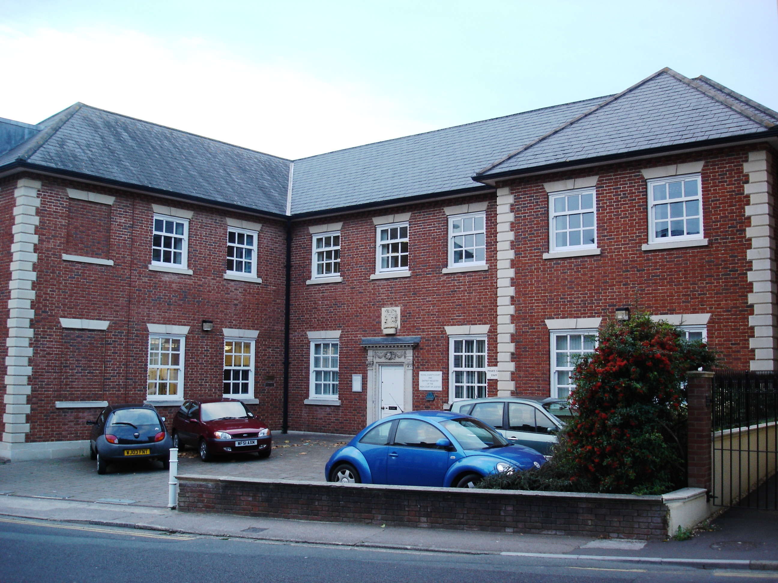 Yeovil County Court